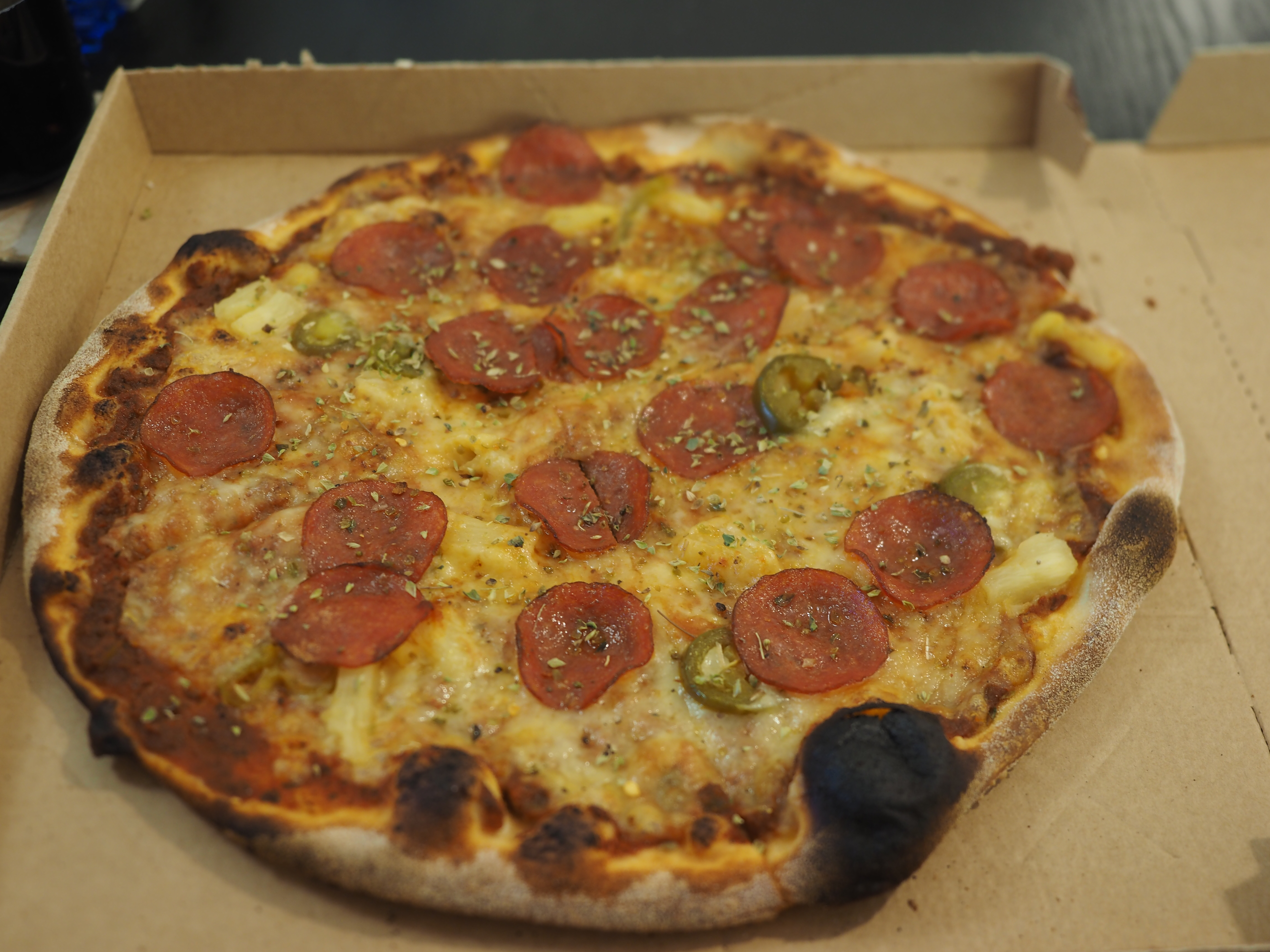 Kotipizza Mexicana with pepperoni sausage, pineapple and jalapeño peppers, bought as take-away and eaten at home.